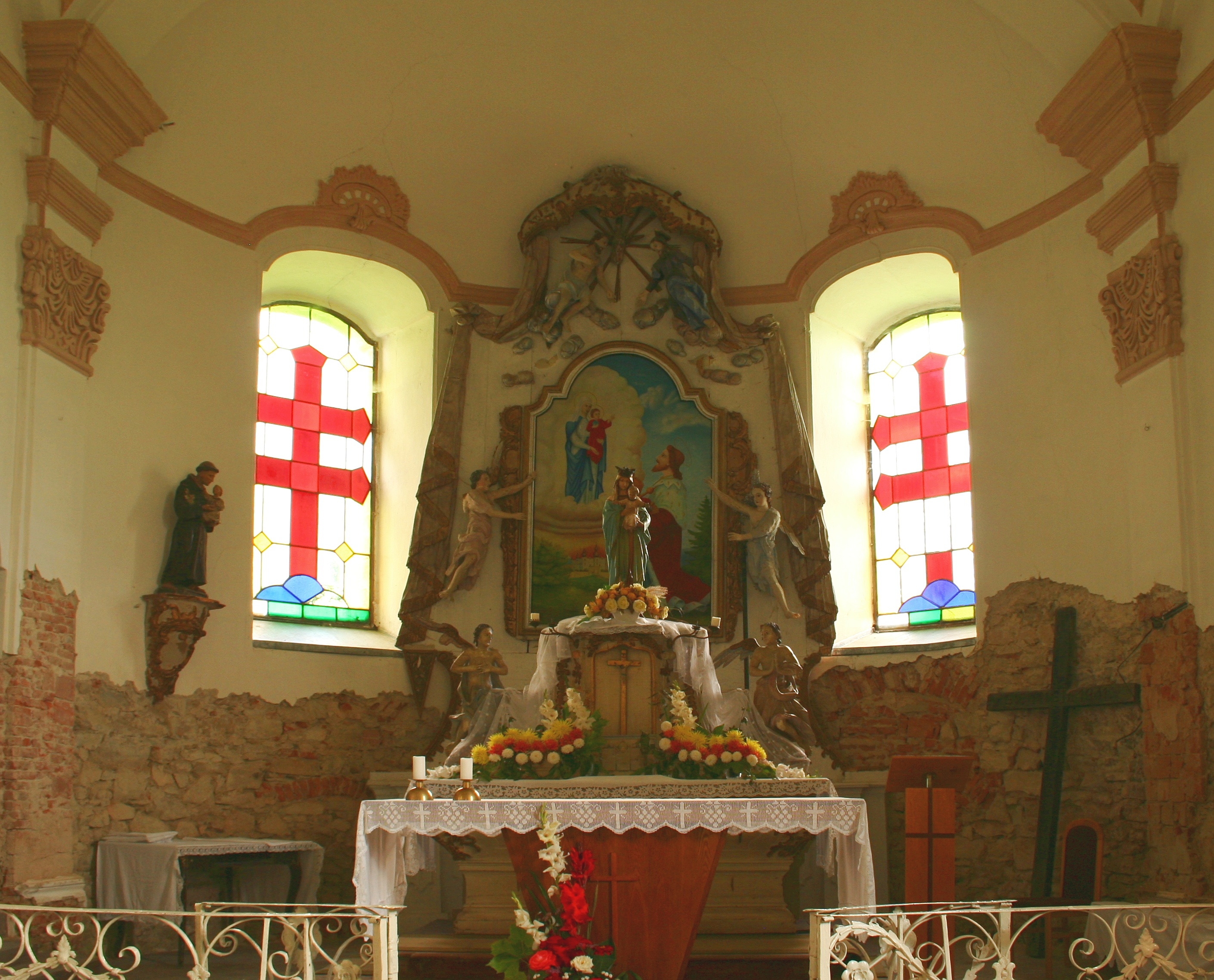 church in Nová Kelča, village in Slovakia - altar